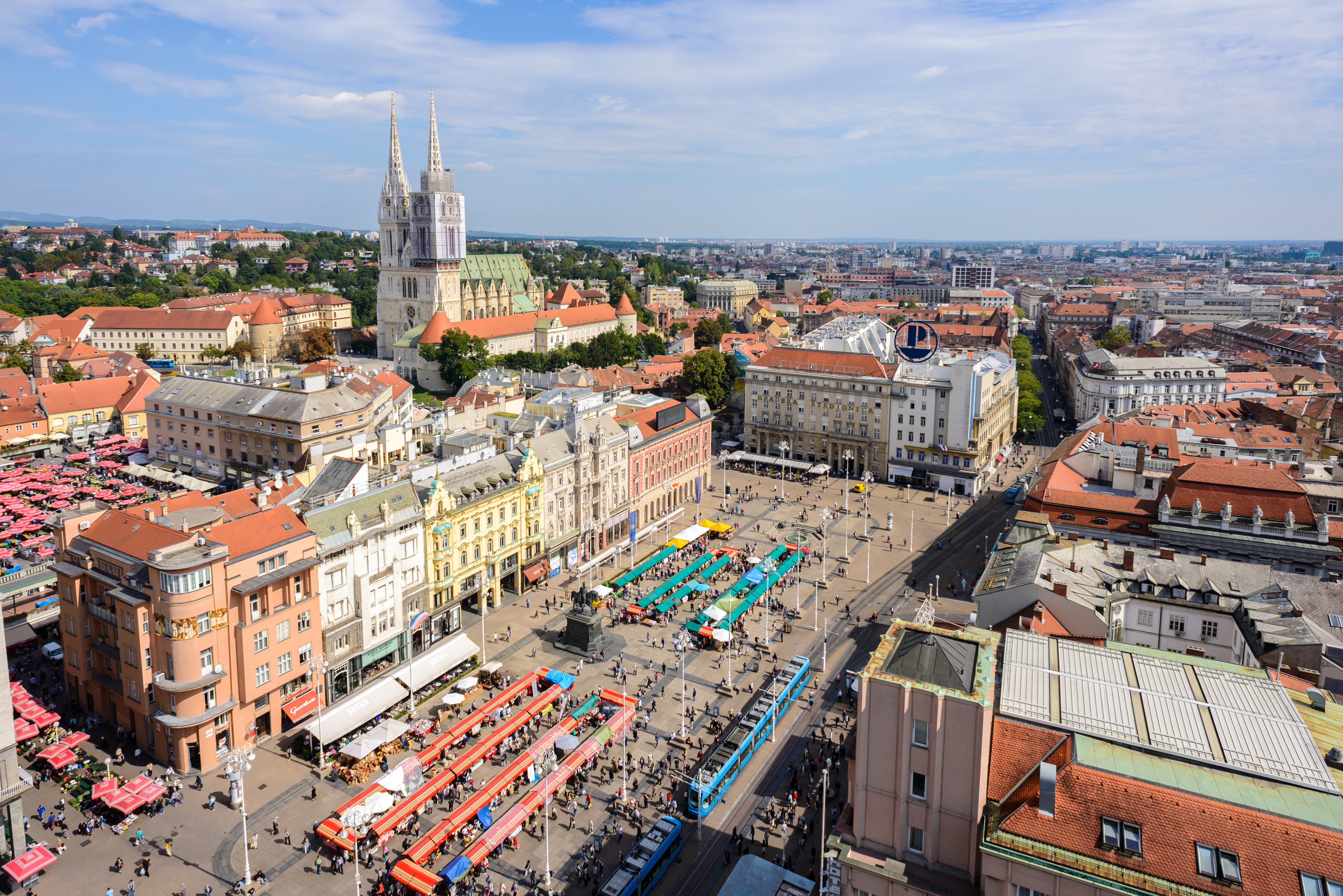 Zagreb Cathedral and Ban Jelačić Square